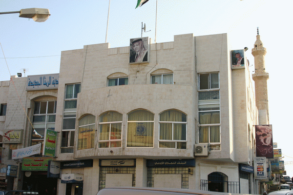 Ramtha Military Exhibition Hall